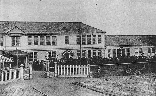 Chiba Girls Normal School